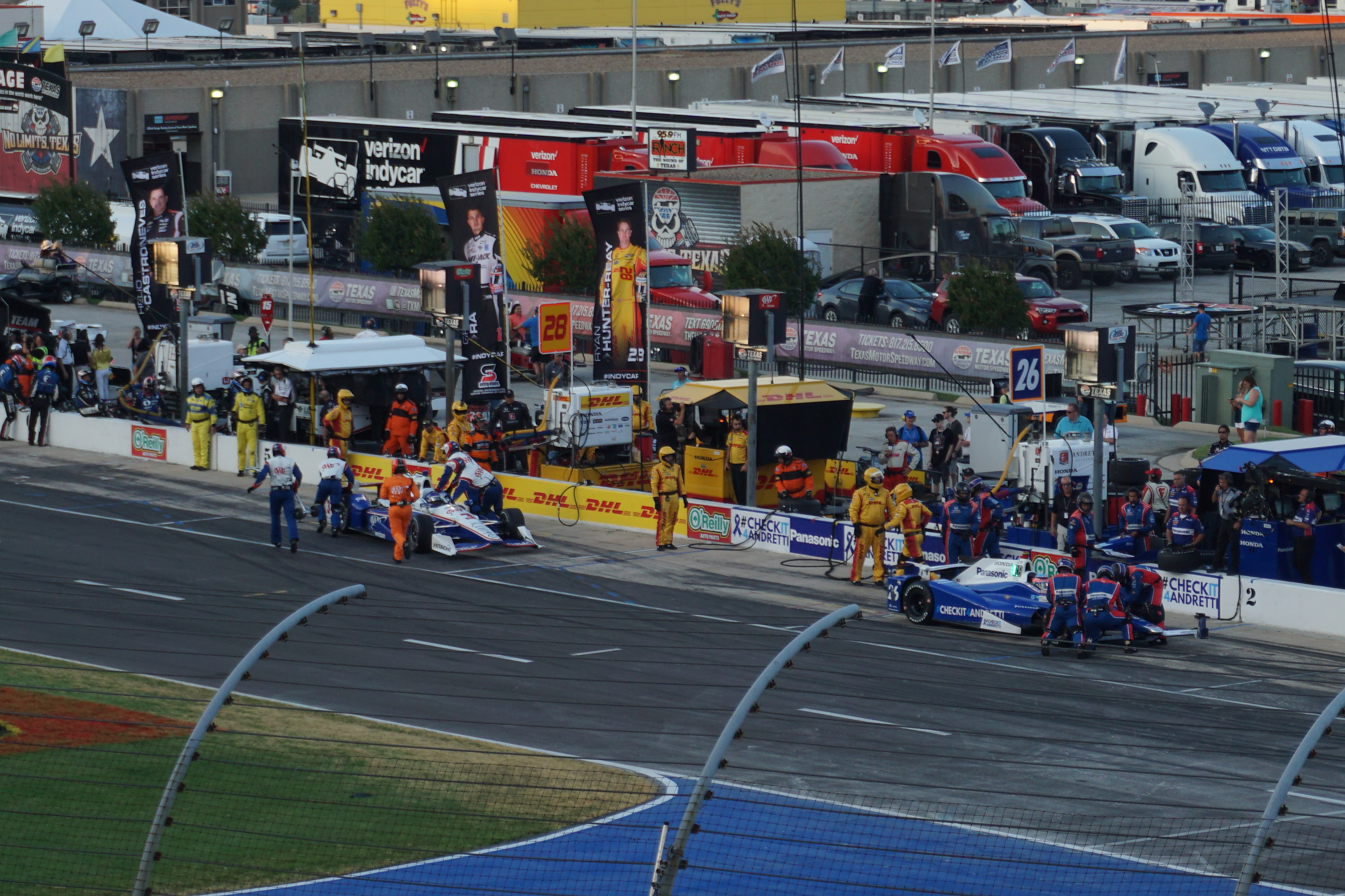 Hélio Castroneves and Takuma Sato after colliding in pit lane during the 2017 Rainguard Water Sealers 600 at Texas Motor Speedway in Fort Worth, Texas (United States).